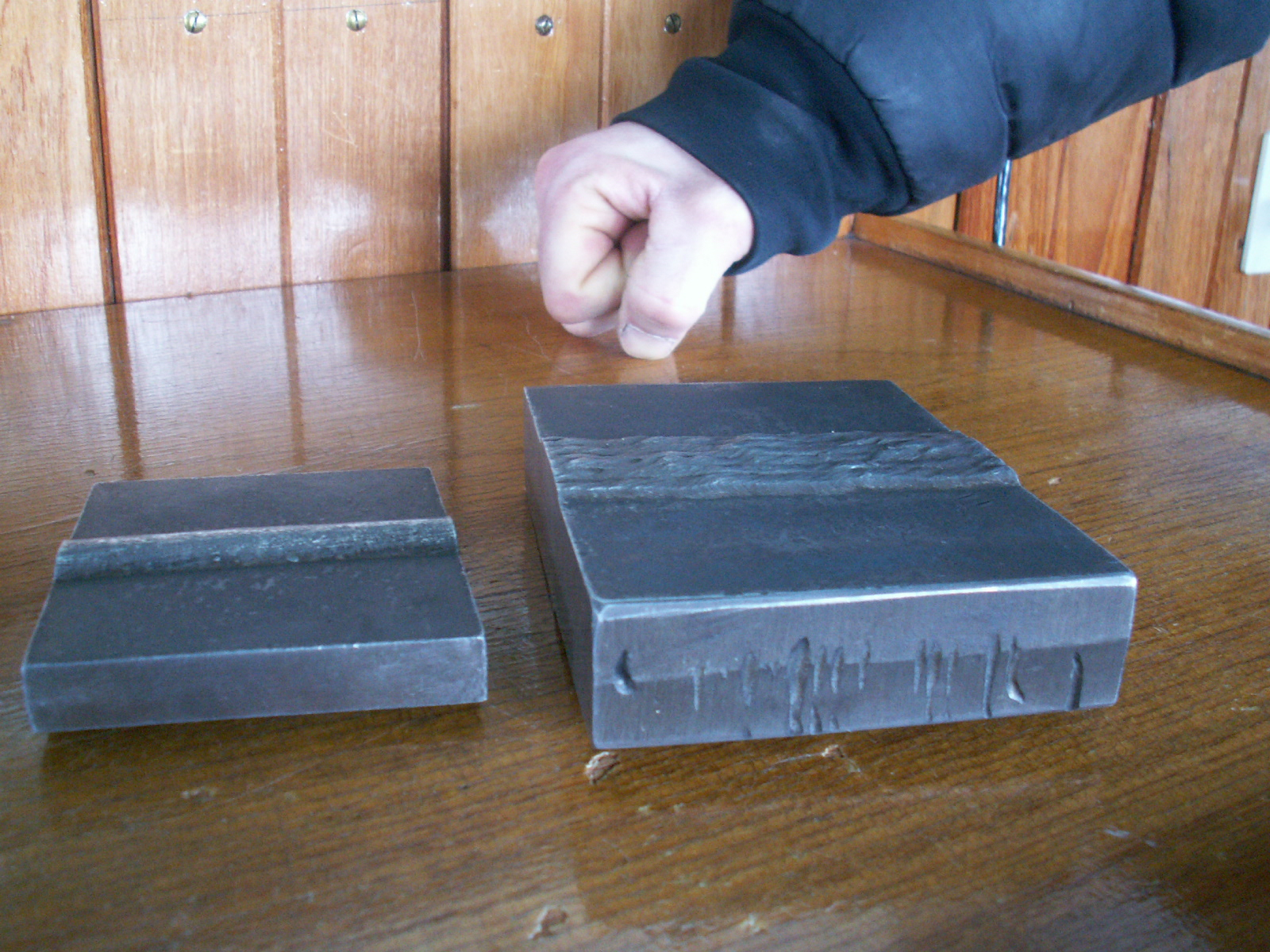 Steelskin of Icebreaker (right) compared to Standard ship (left)